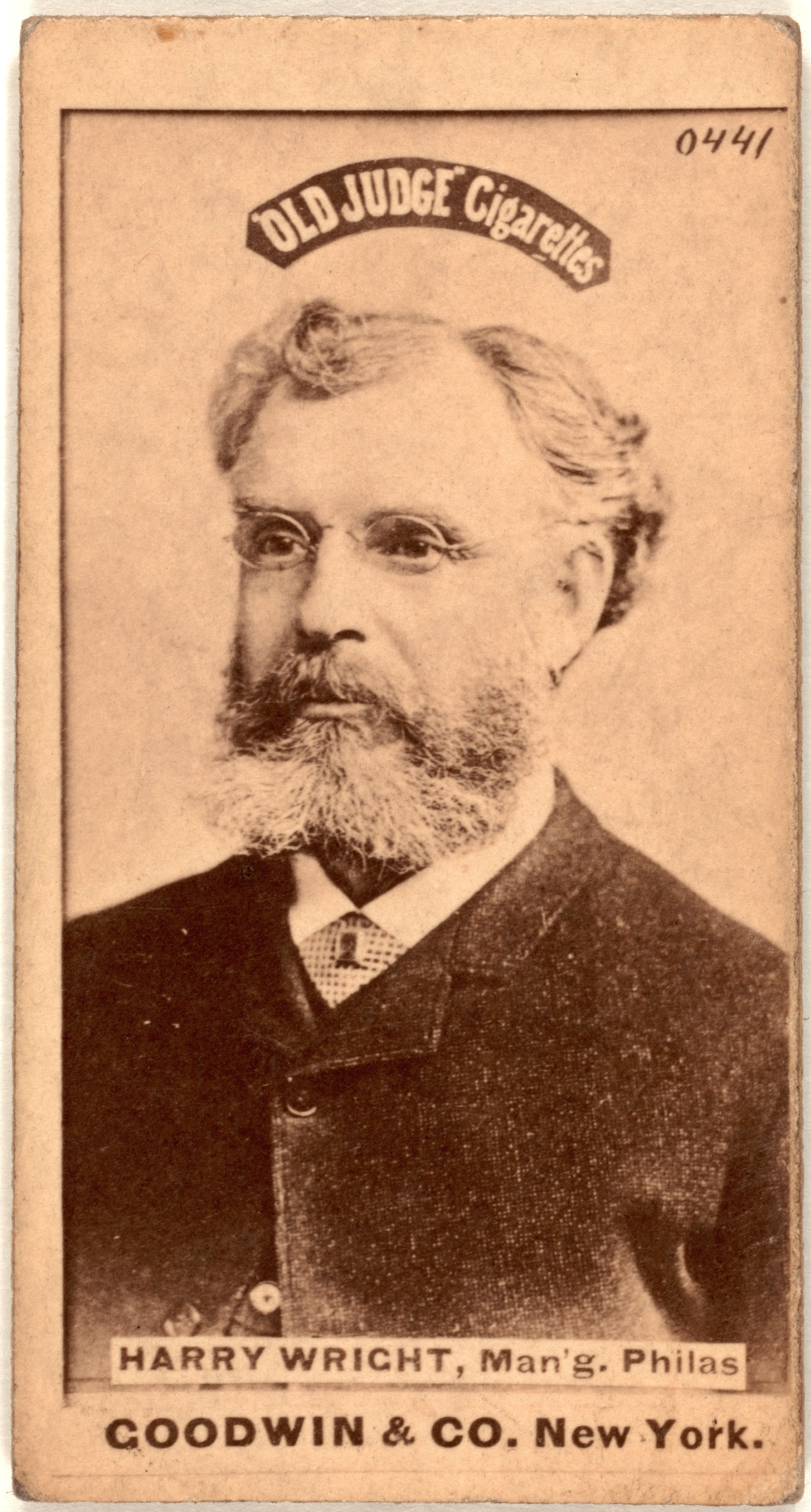 baseball card of Harry Wright. Explanation for public domain: copyright expired.